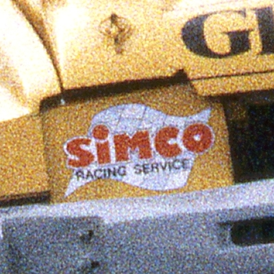 Demonstration of the film grain in Image:MartinIversenNorway1991.jpg (Agfa 1000 RS slide).